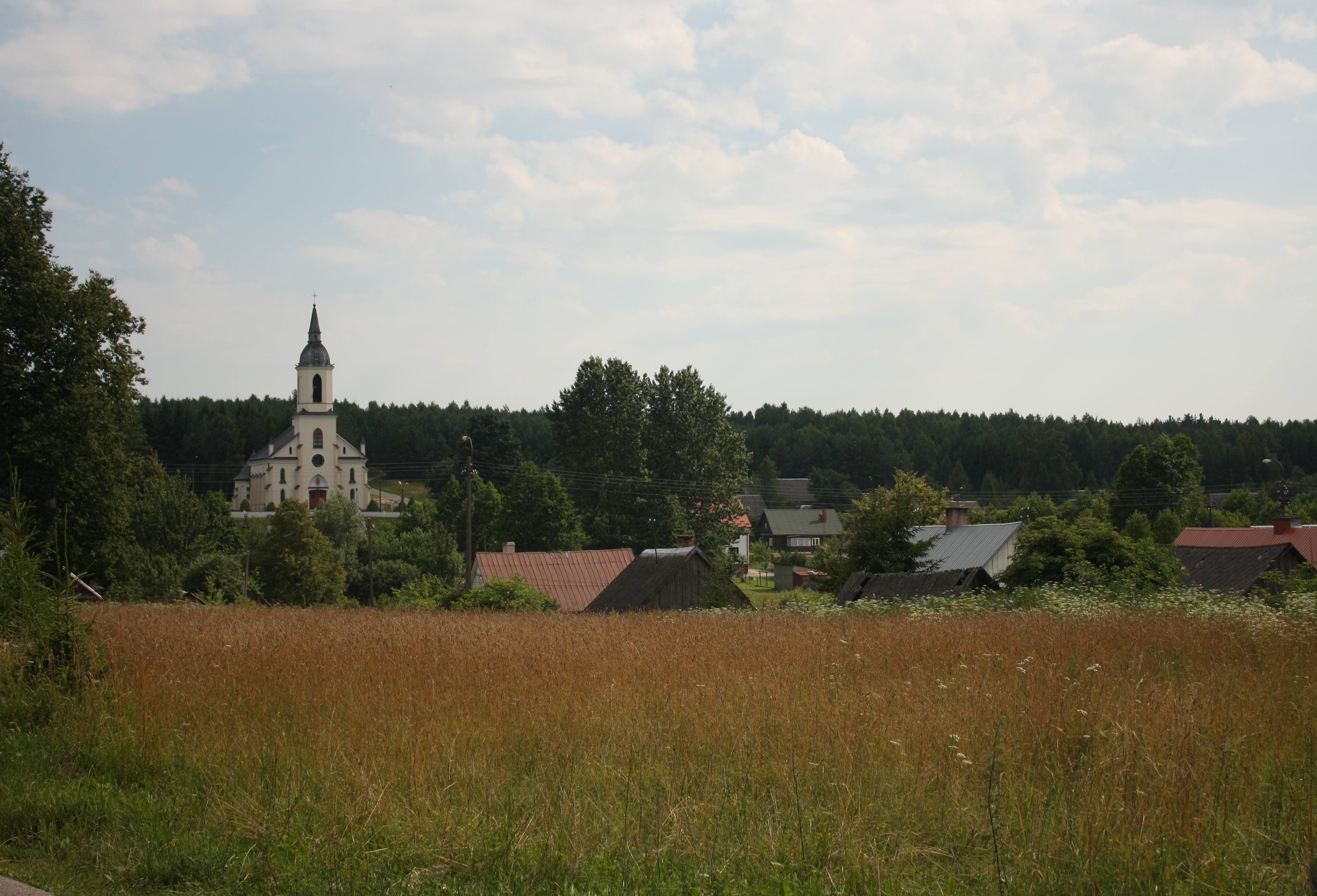 Szudziałowo St. Vincent Church